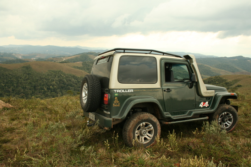 Picture of a Troller car in Campos do Jordão, a mountain city in the state of São Paulo, Brasil. author Felipe Vicentini